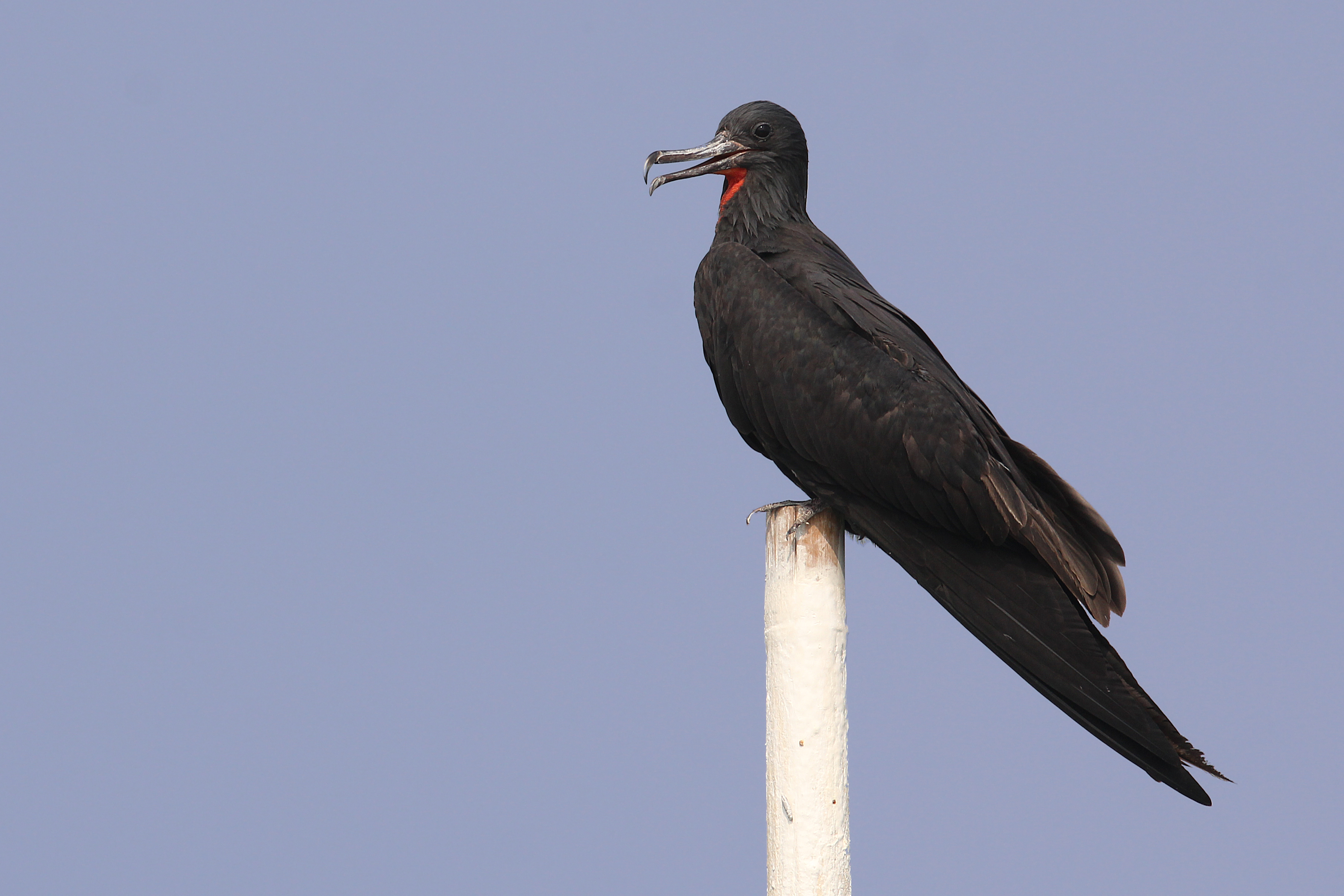 Lesser Frigatebird photographed from Indonesia.